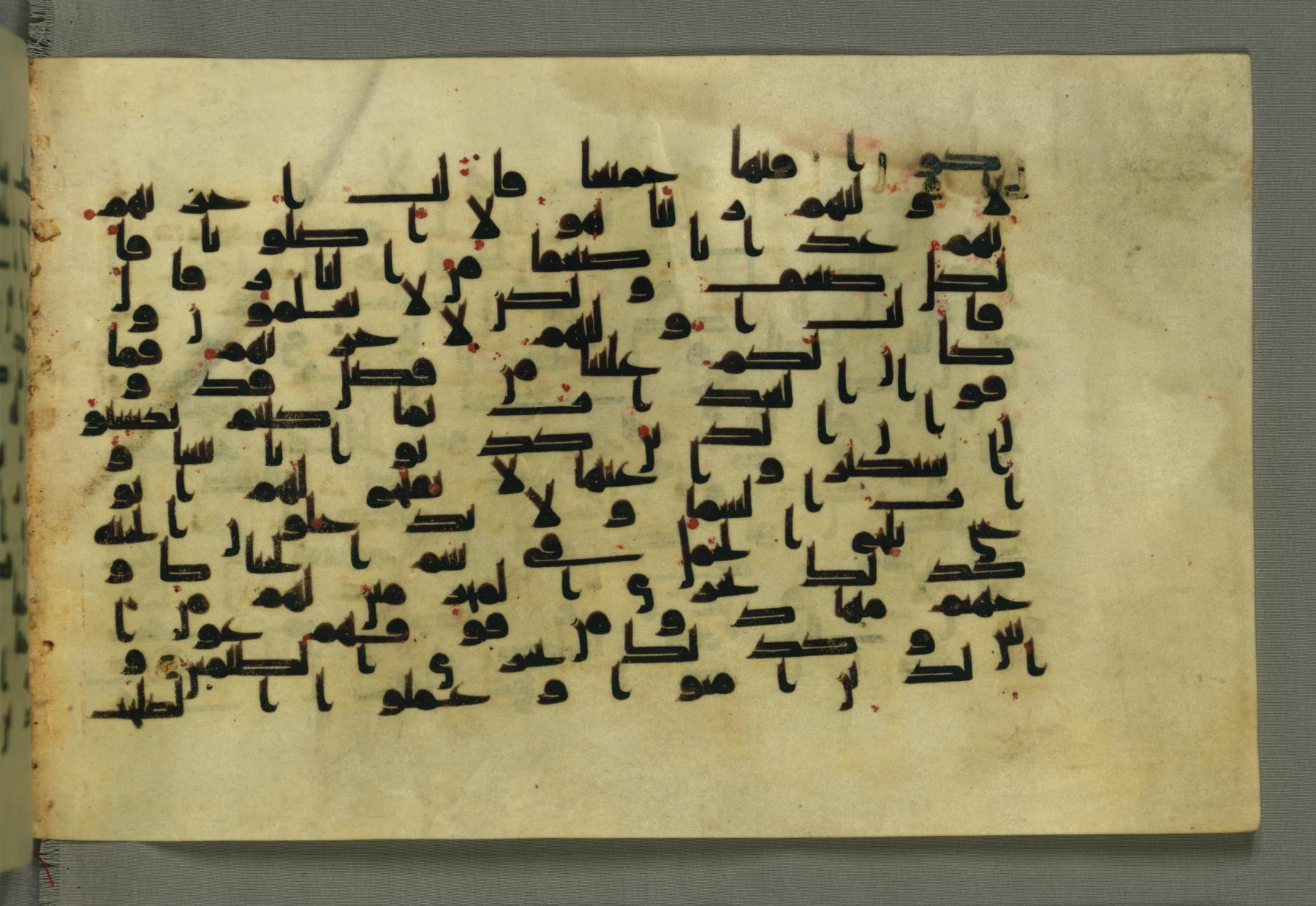 This folio from Walters manuscript W.552 is executed in Kufic script. Already in the 9th century, the rectilinear Kufic script seen on this page began to be replaced by a more cursive "font" called the New Abbasid style. The Abbasids were an early Islamic dynasty that ruled from AD 750-1258. The first center of political, economic and cultural life for the Abbasids was Baghdad, the circular City of Peace (madinat al-salam), which became the empire's capital in 762.